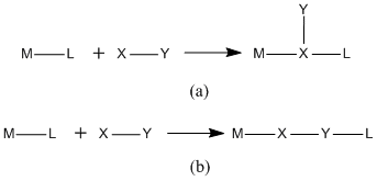 Examples of type 1,1 (a) and 1,2 (b) resulting geometries for insertion reactions